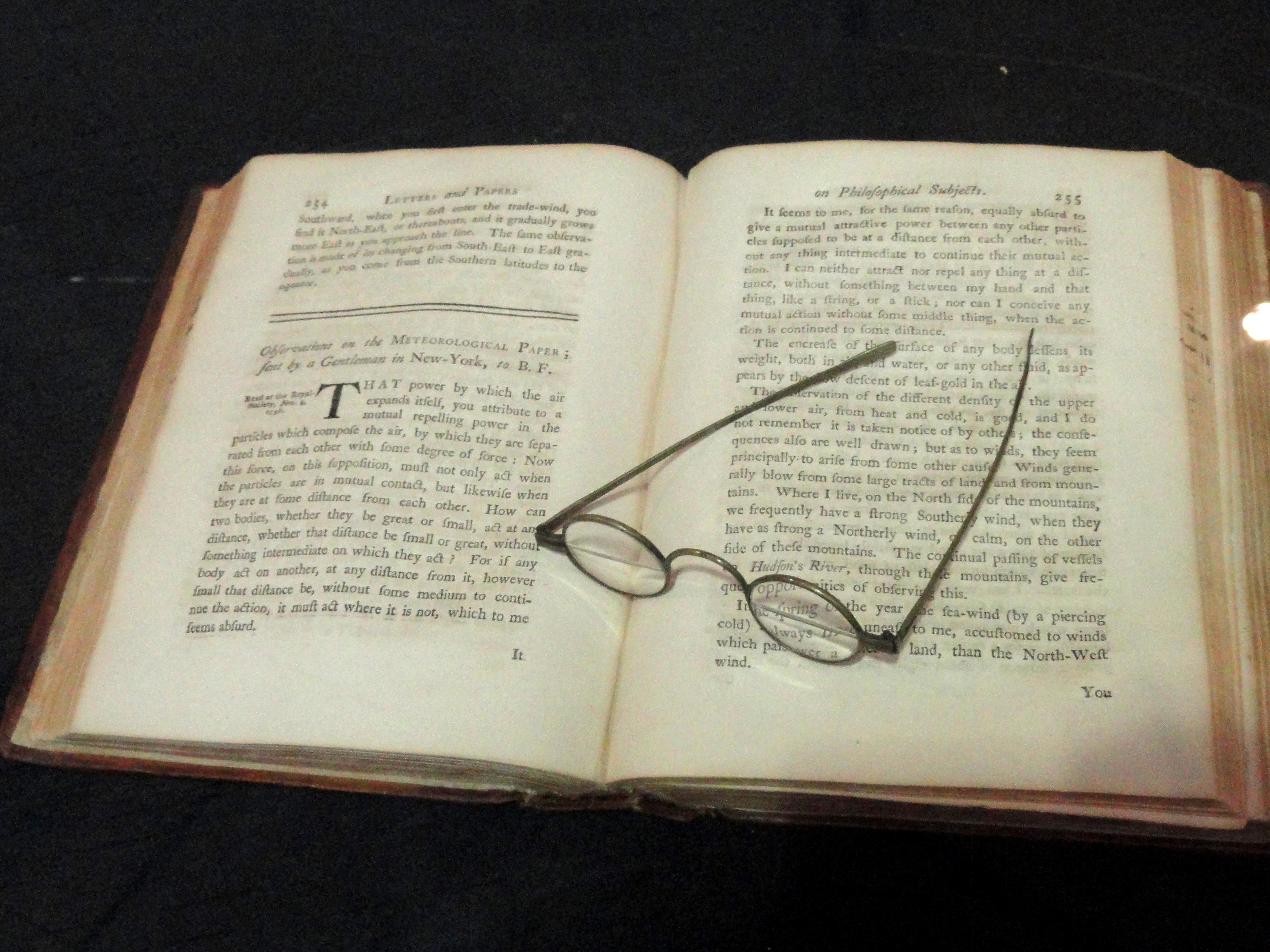 Exhibit in the Franklin Institute, Philadelphia, Pennsylvania, USA.